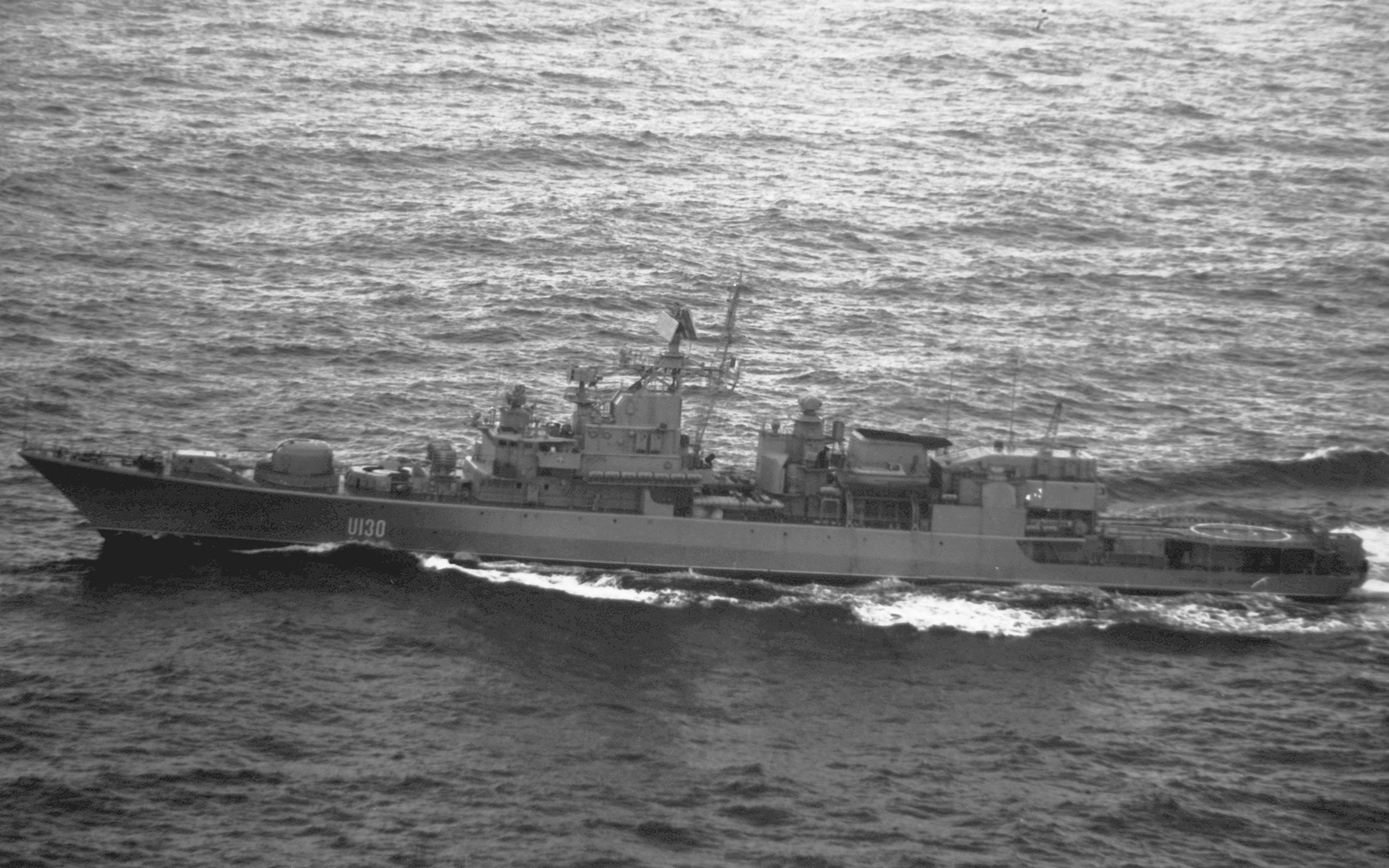 Aerial port side view of the Ukrainian project 11351 frigate U130 Het′man Sahaidachnyi underway near Sicily in NATO Partnership for Peace exercise as seen from a patrolling P-3C aircraft.